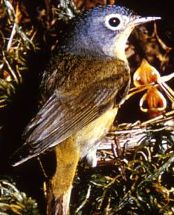 Nashville Warbler on a nest with young in Iowa